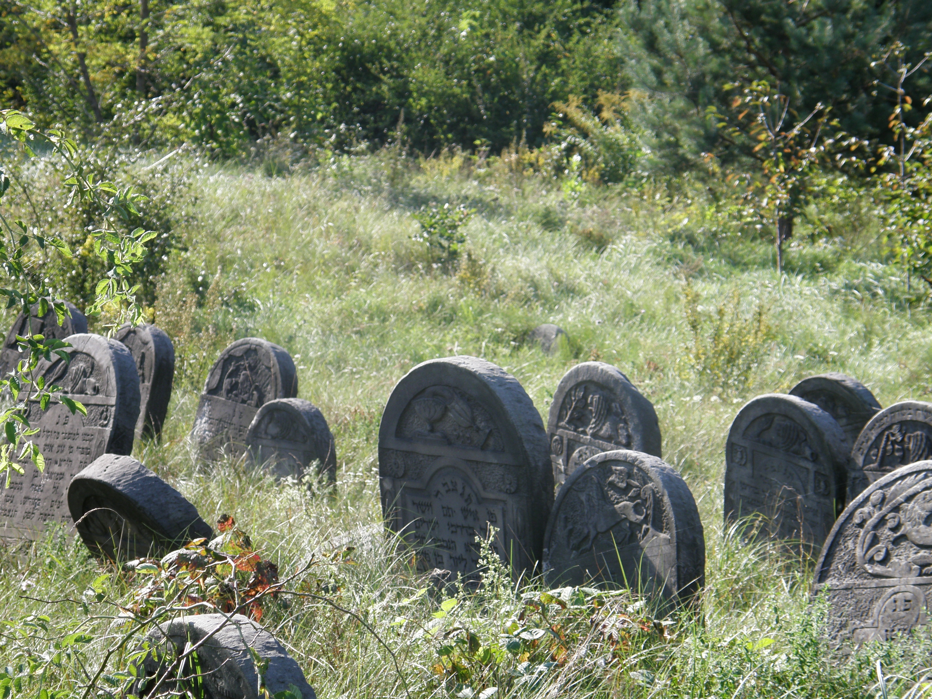 Gravestones in a Jewish cemetery in Radomsko